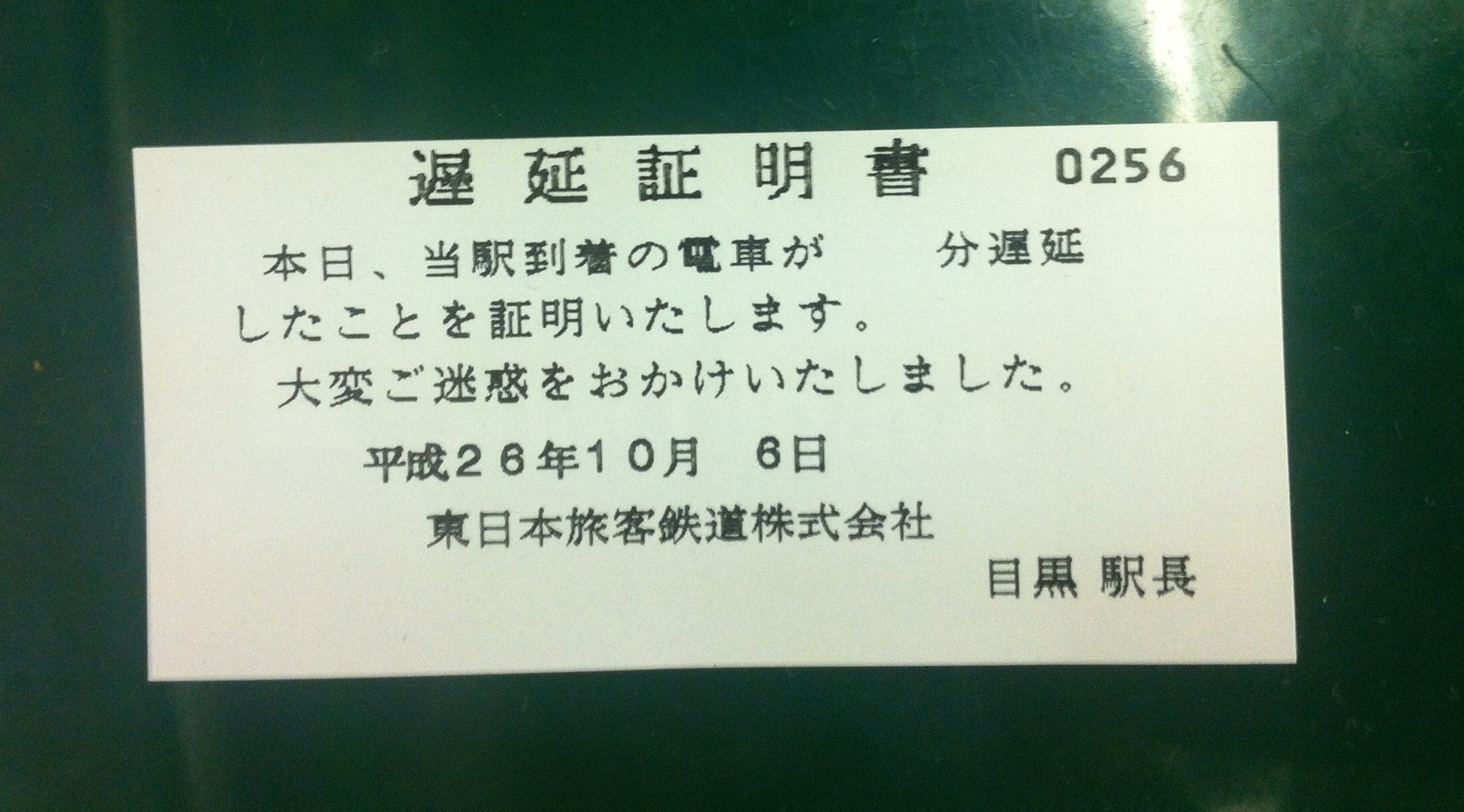 JR目黒駅の遅延証明書 JR Meguro station's certificate of train delay